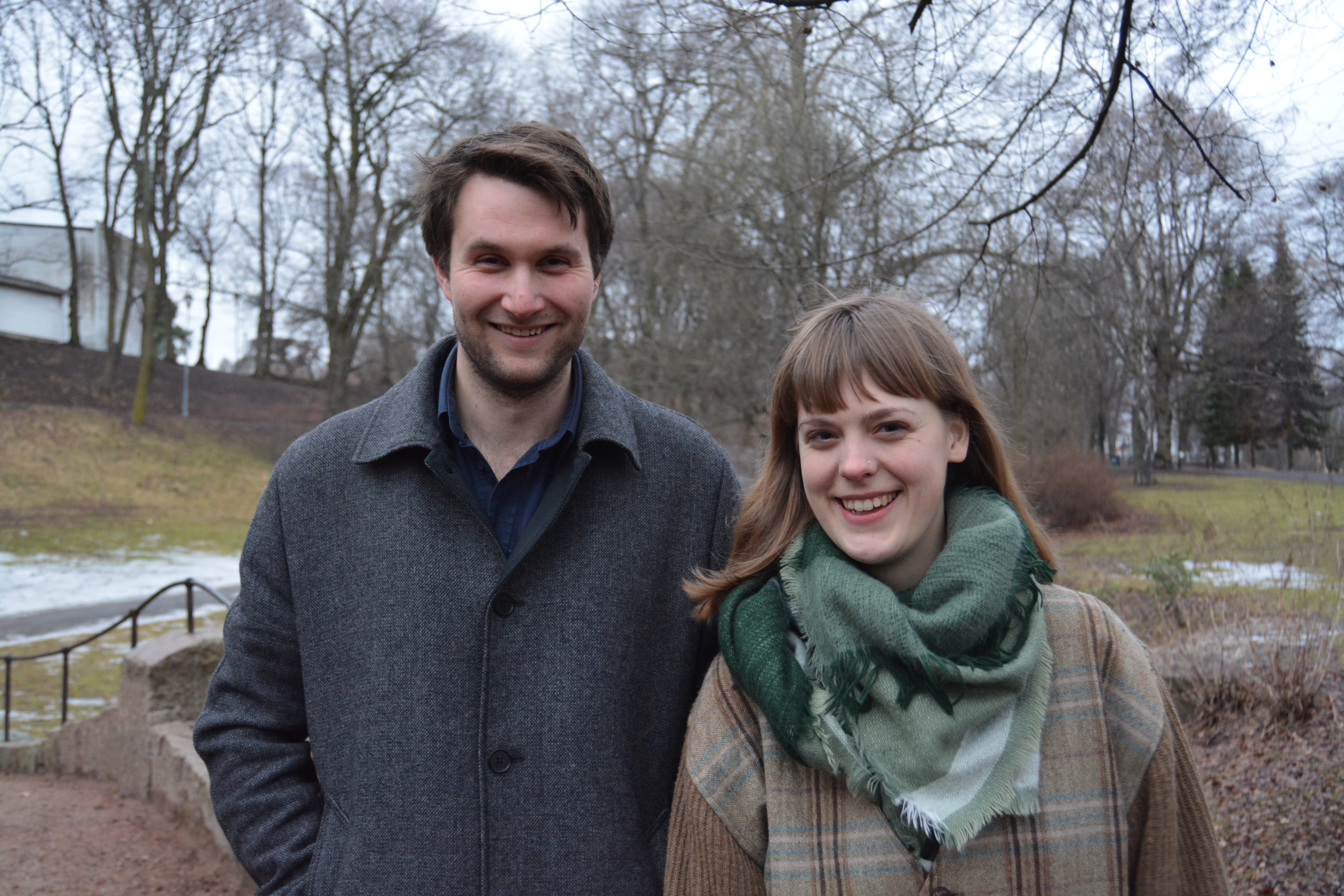 The two elected spokespeople for the student organization Green Students of Norway, 2015/2016